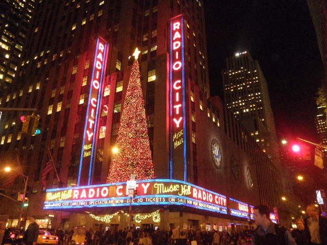 Radio City Music Hall